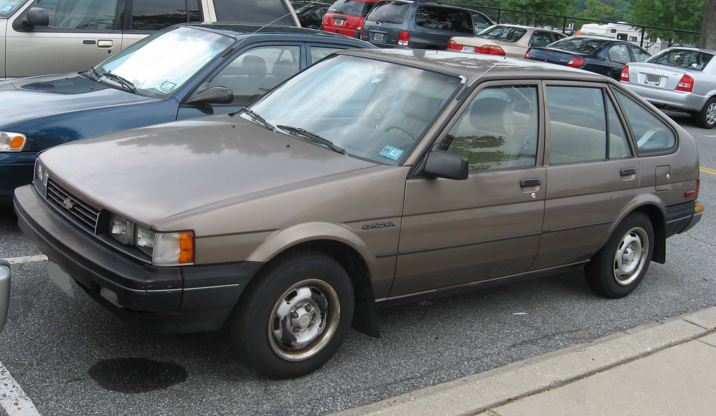 1985-1988 Chevrolet Nova photographed in USA.